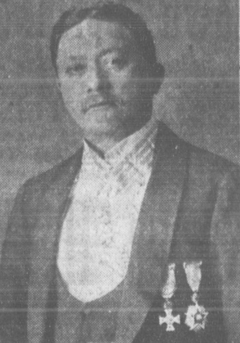 George Charles Mooheau Kauluheimalama Beckley (May 5, 1849 - July 4, 1910), was a grandson of Captain George Charles Beckley and High Chiefess Ahia. He served as purser of the steamship Kinau and received the honorary title of "The Admiral of Honolulu Harbor" from the Association of Masters, Mates & Pilots No. 54", of which he was a member. Queen Liliuokalani appointed him as a member of her Privy Council in 1891.